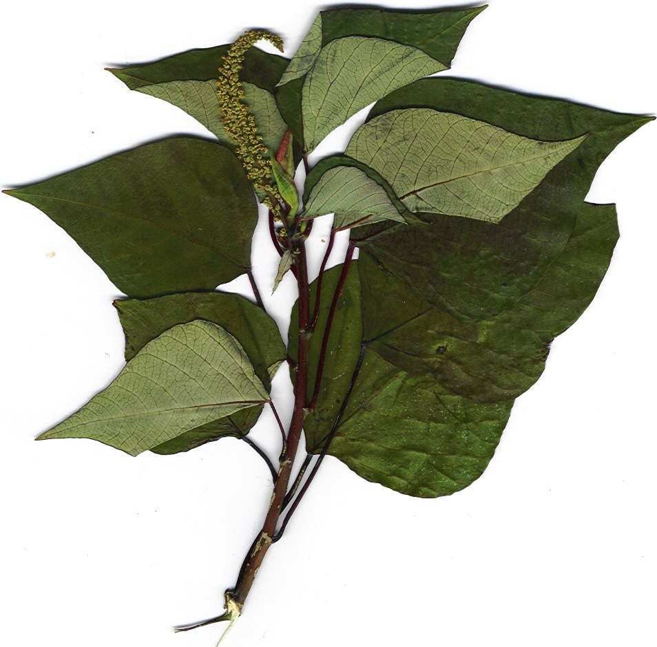 Homalanthus populifolius (plant). Location: Hawaii, Ocean view Estates